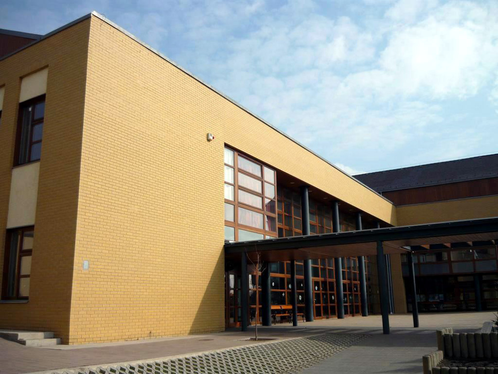 The new building of Gregor József Általános Iskola (József Gregor Elementary School), Rákosliget (17th district of Budapest)